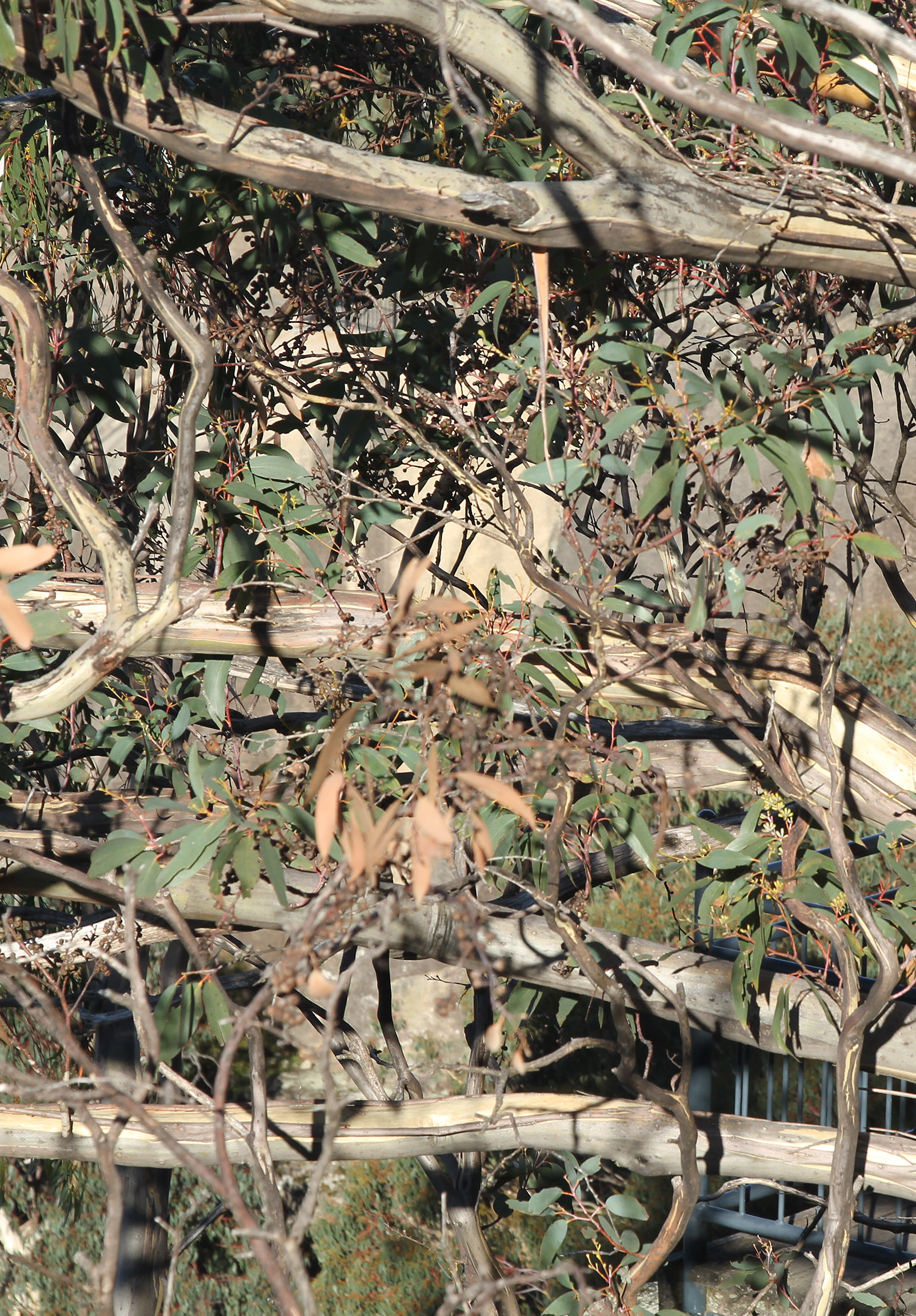 Eucalyptus mitchelliana (Buffalo sallee) at the Gorge Lookout near the chalet on Mount Buffalo. The image shows bark, leaves, buds, and fruit of the tree. This species of Eucalyptus is the only one that is endemic to Mt Buffalo. Victoria, Australia.